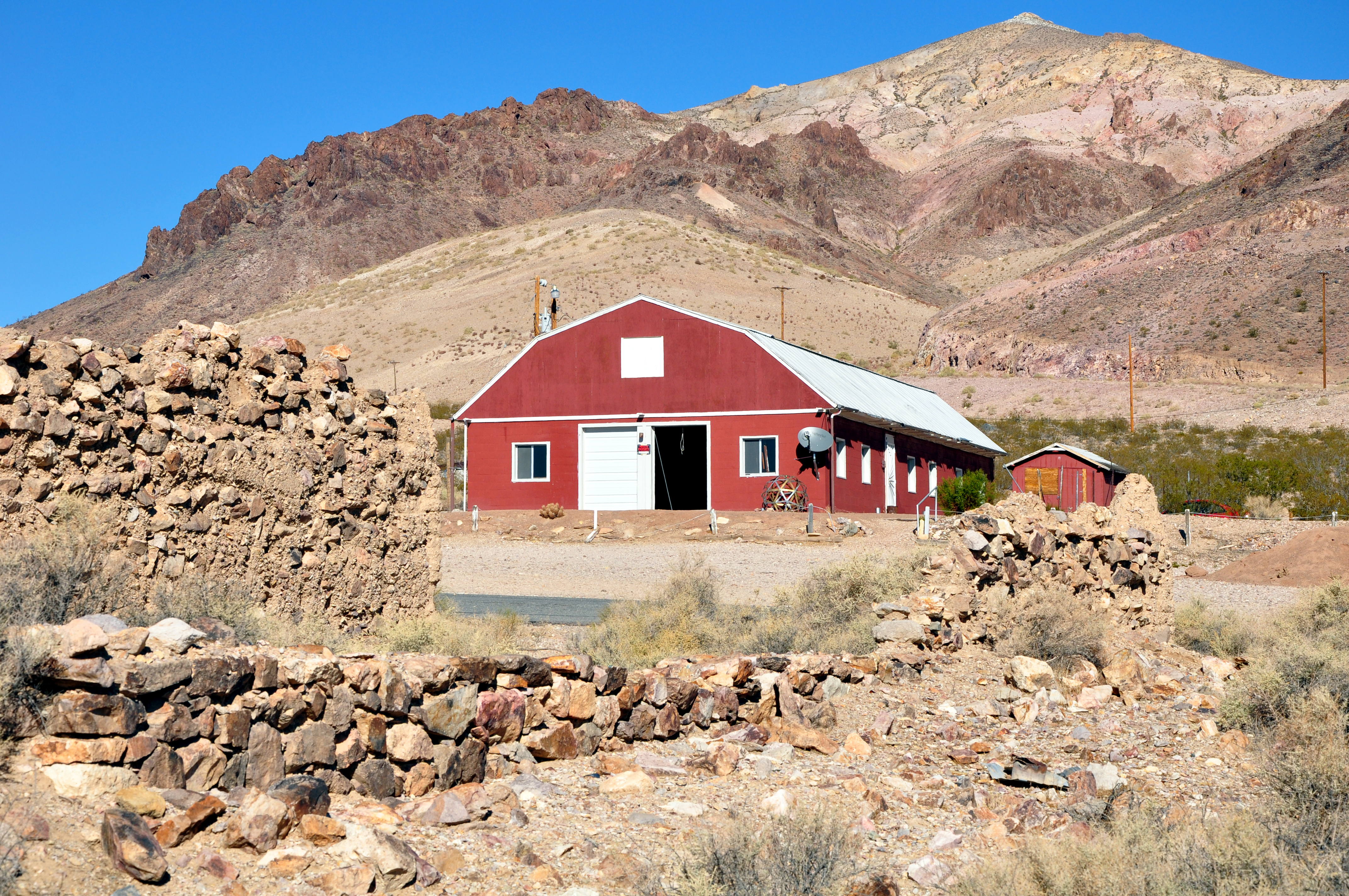 Red Barn at the Goldwell Open Air Museum near the ghost town of Rhyolite, Nevada, United States. View is to the north over ruins of another ghost town, Bullfrog, Nevada. In the background is Bonanza Mountain.